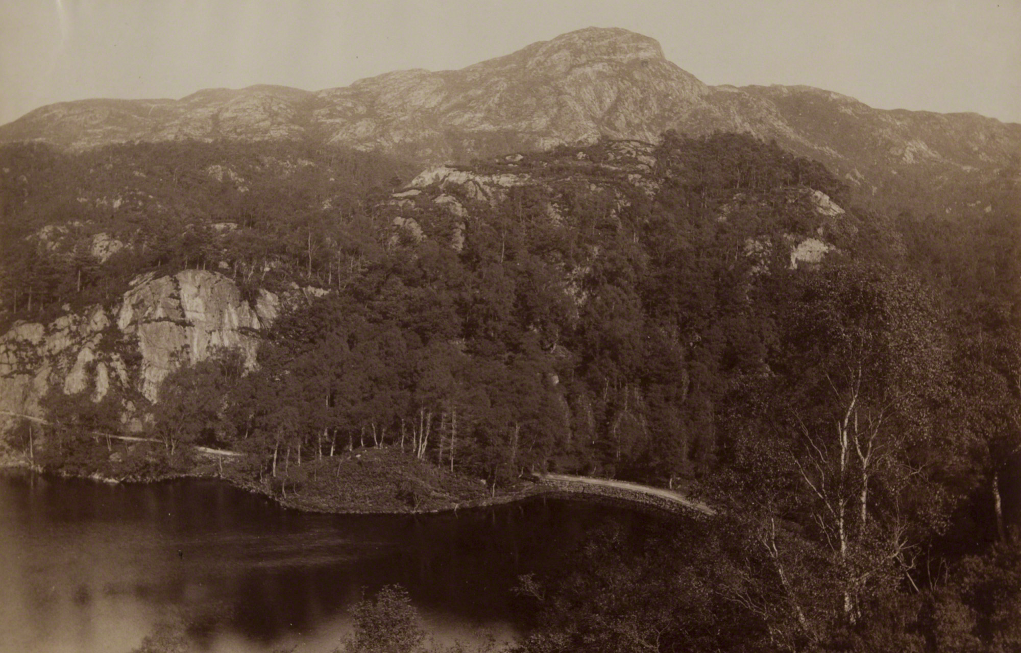 Title: Ben A'an from above Trossachs Pier Artist: James Valentine Artist Bio: Scottish, 1815 - 1880 Creation Date: before 1880 Process: albumen print Credit Line: Gift of James Garfinkel Accession Number: 1989.039.034